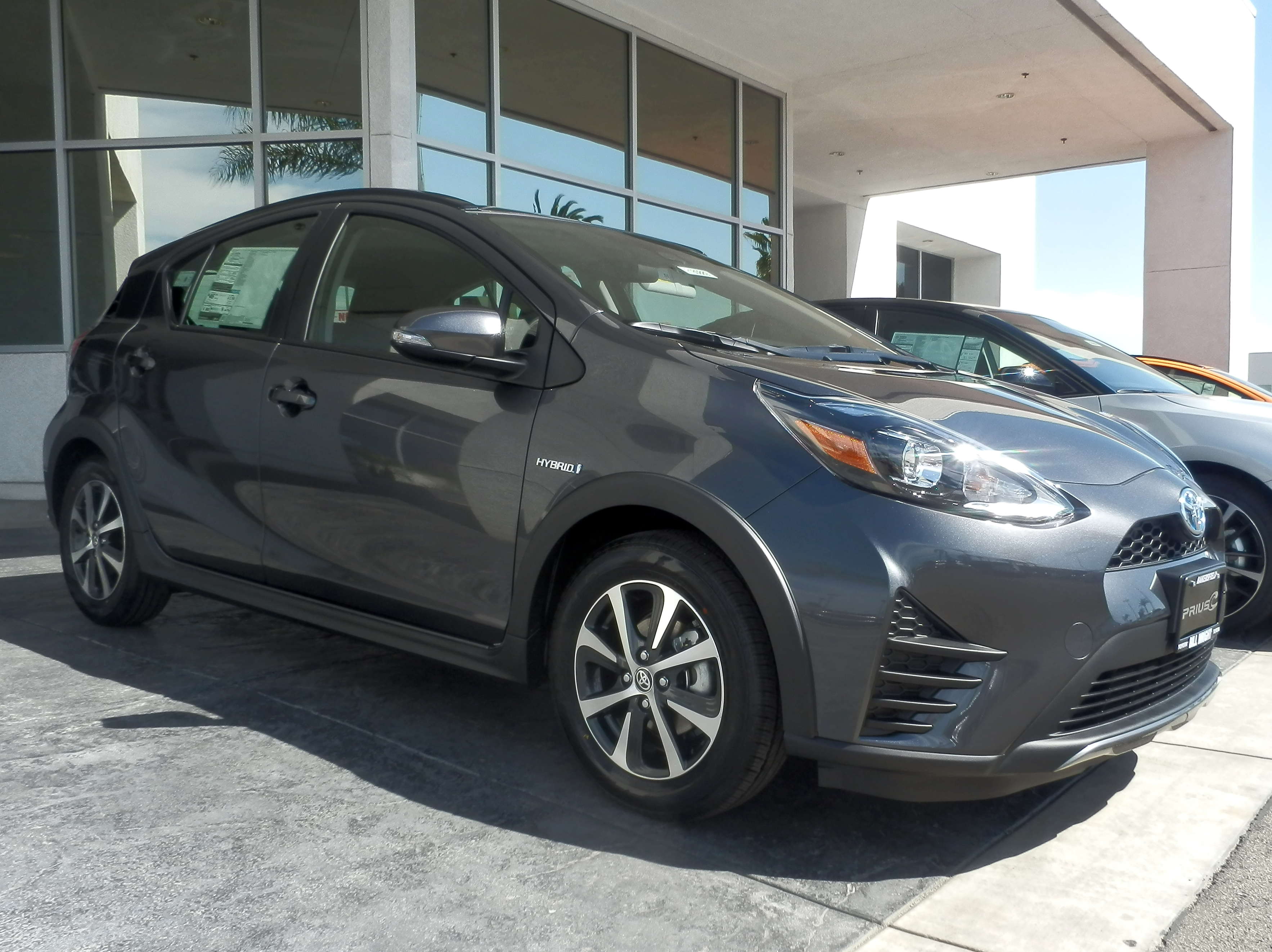 Toyota Prius c in Bakersfield